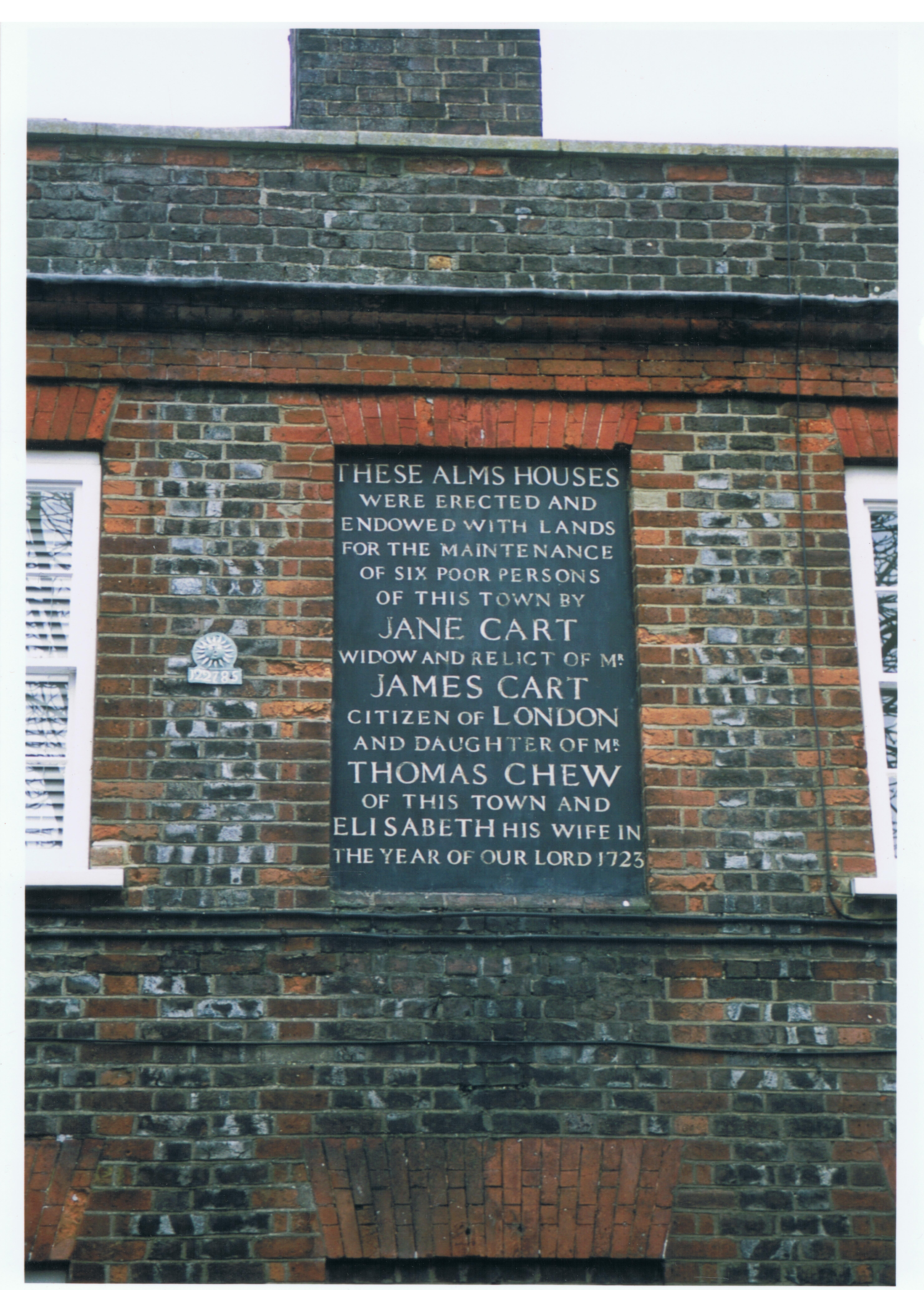 Scan of a photo (photo by me, R. de Salis, Rodolph (talk)) of the monumental inscription on the Chew almshouses, commemorating their endowment in 1723. Other information Photograph by R. de Salis, 2011, using a 35mm Canon SLR. The inscription is at least 100 years old.